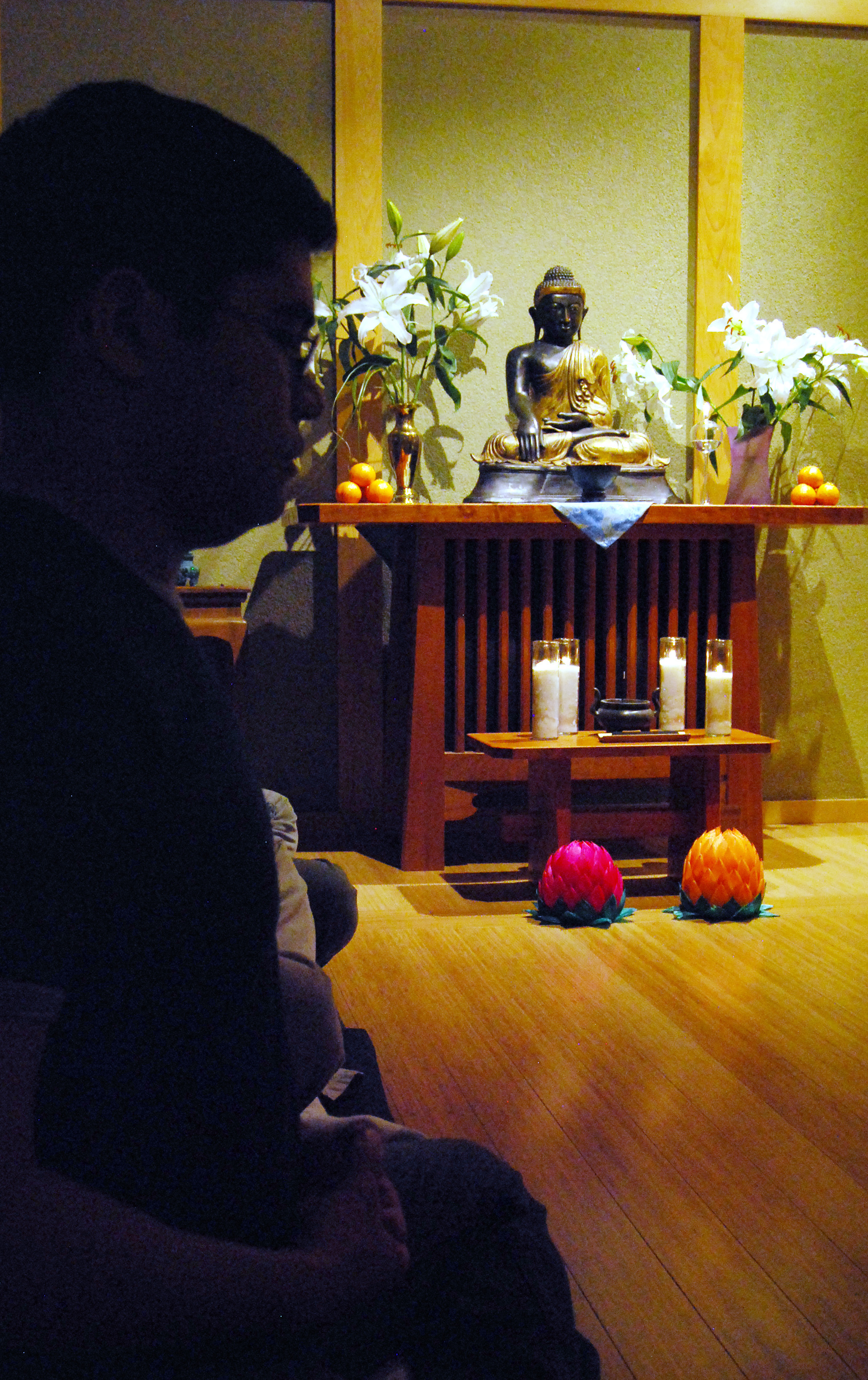 Academy's Buddhists observe Bodhi Day Cadet 2nd Class Daniel Dwyer meditates during a Bodhi Day observance at the Air Force Academy's Buddhist Chapel Dec. 8, 2010. Dwyer is one of approximately 12 cadets who regularly attend services with the Vast Refuge Sangha, led by Sensei Sarah Bender of Colorado Springs, Colo. (U.S. Air Force photo/Don Branum)